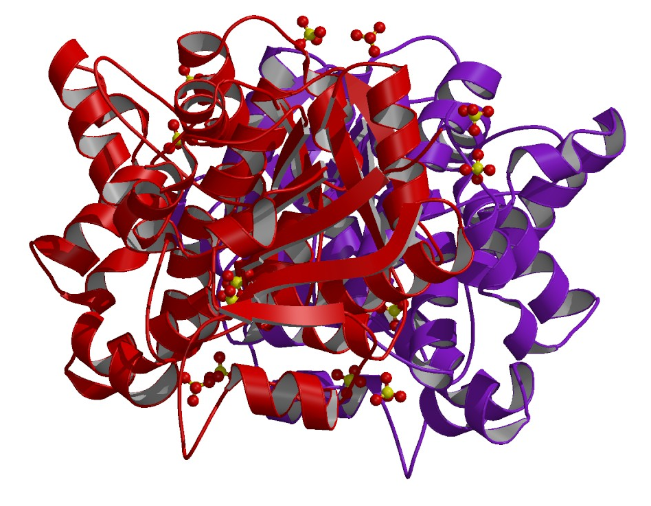 Human glycerol-3-phosphate dehydrogenase 1, generated from PDB 1x0v